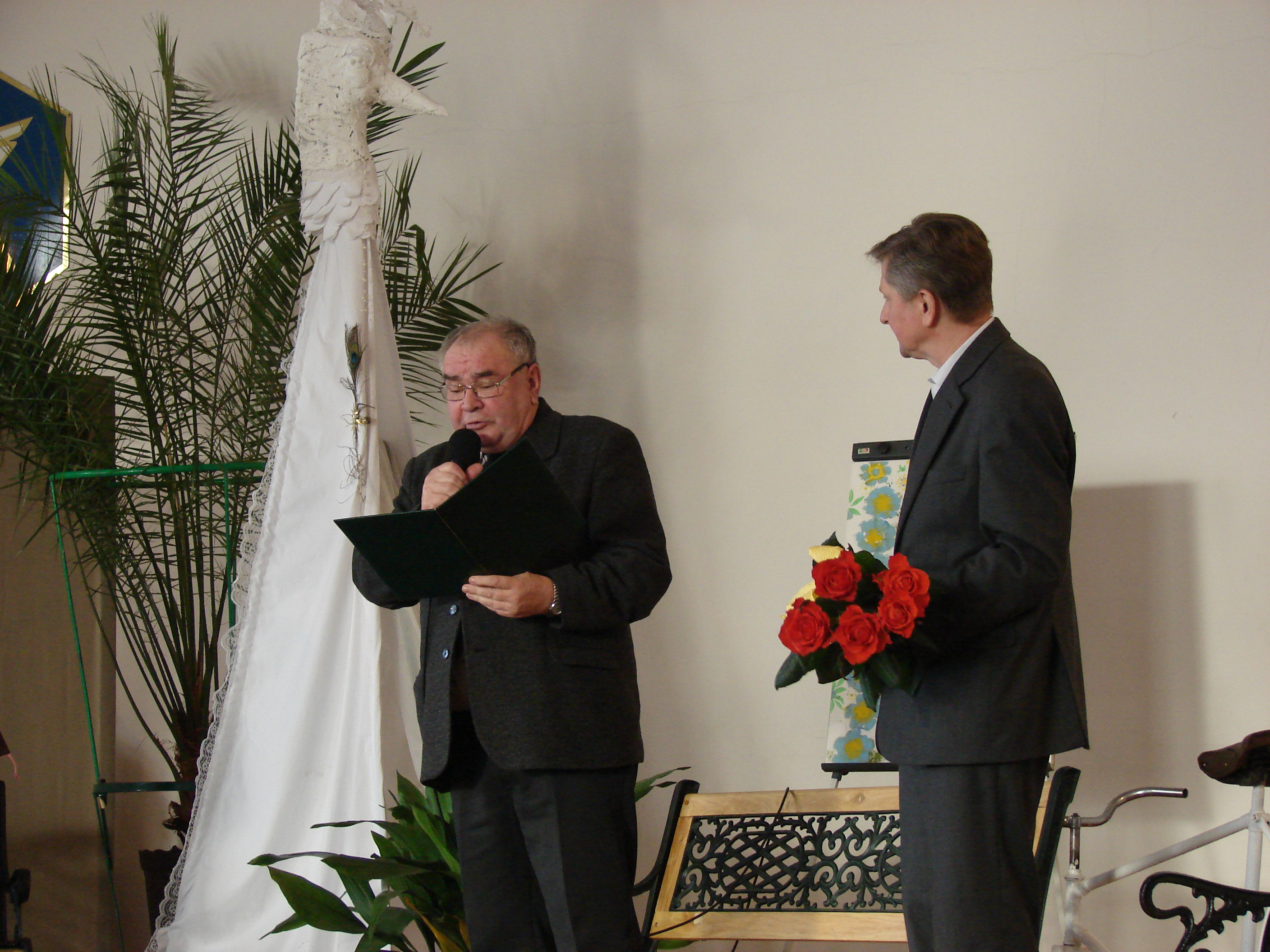 Benefis Edmunda Mikołajczaka